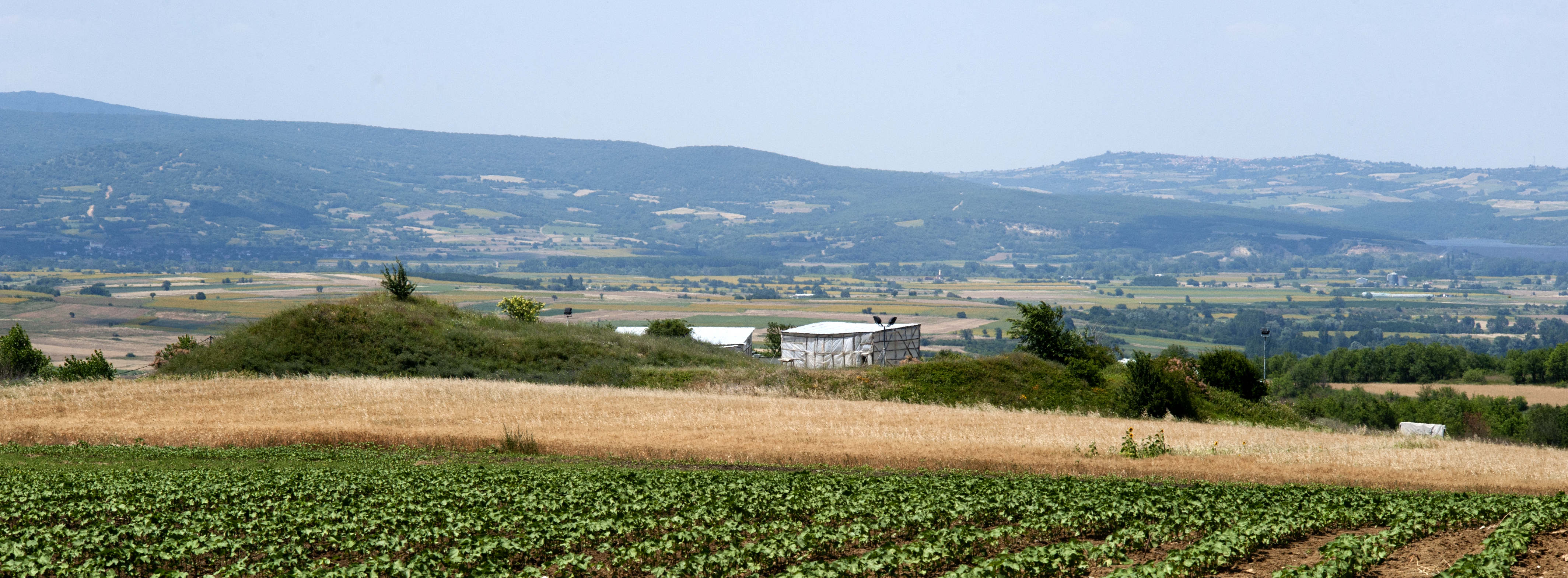 Roman Tomb of Mikri Doksipara Zoni, Evros, Greece.